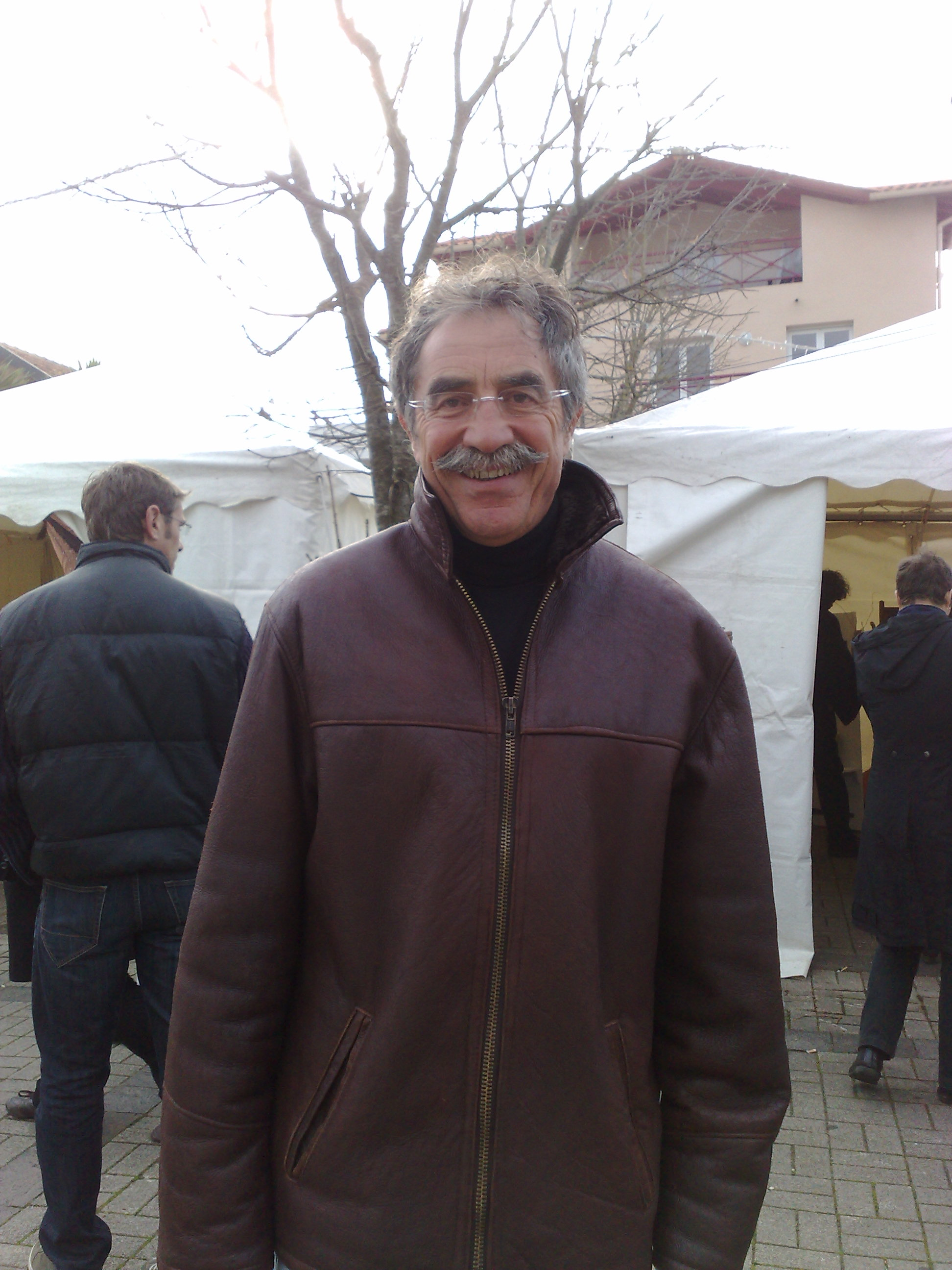 Jean Espilondo mayor of Anglet-Angelu (Lapurdi, Basque Country) and "general councillor" of the Anglet-Angelu North canton at Christmas market in the Cinc (in French Cinq) Cantons or Leclerc square.